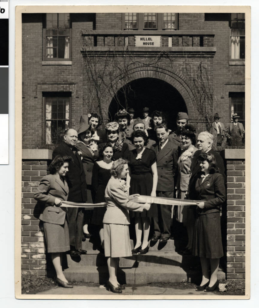 Ribbon cutting at the University of Minnesota Hillel House